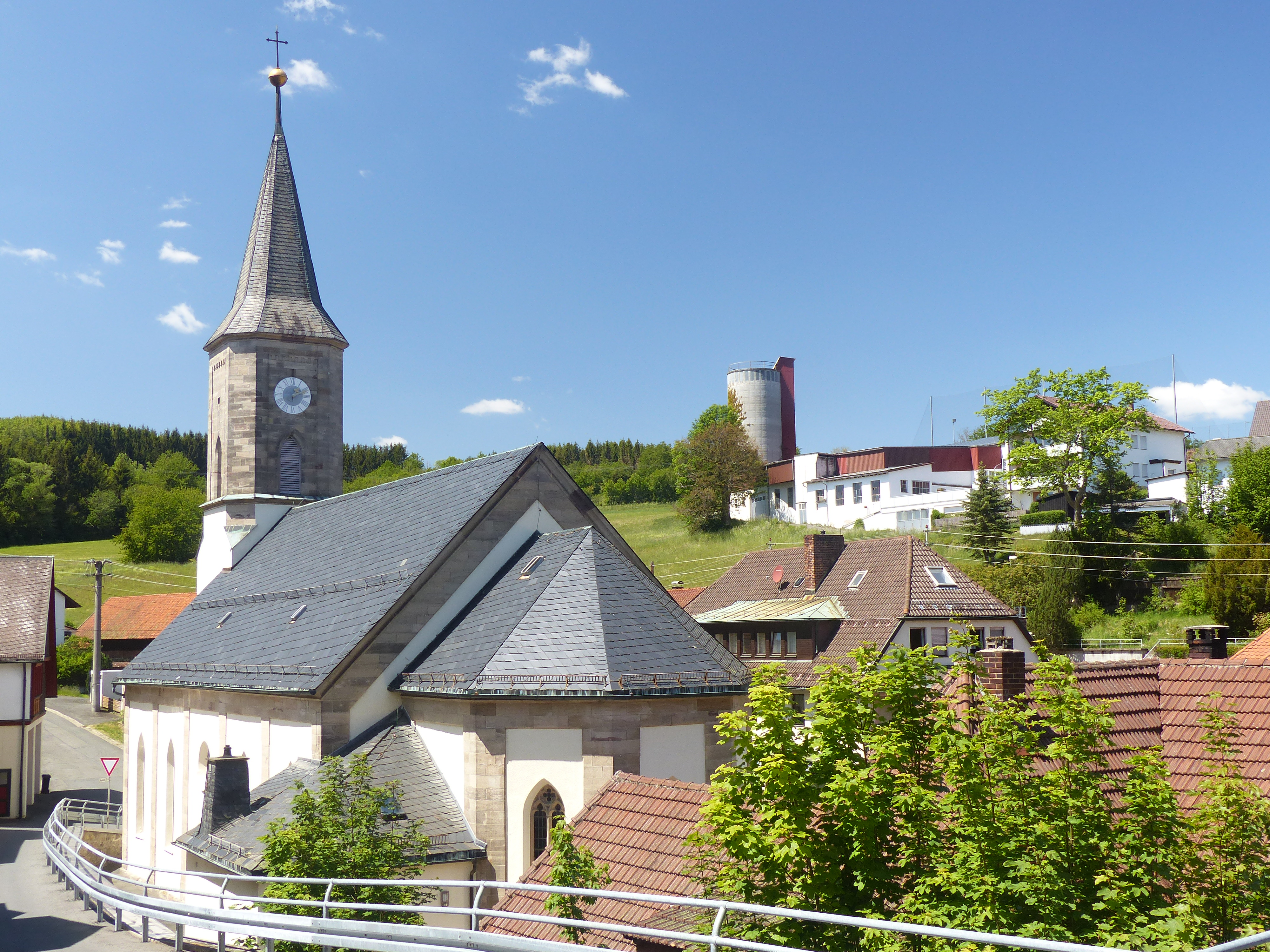 The church of the parish village Wartenfels, a district of the municipality of Presseck.